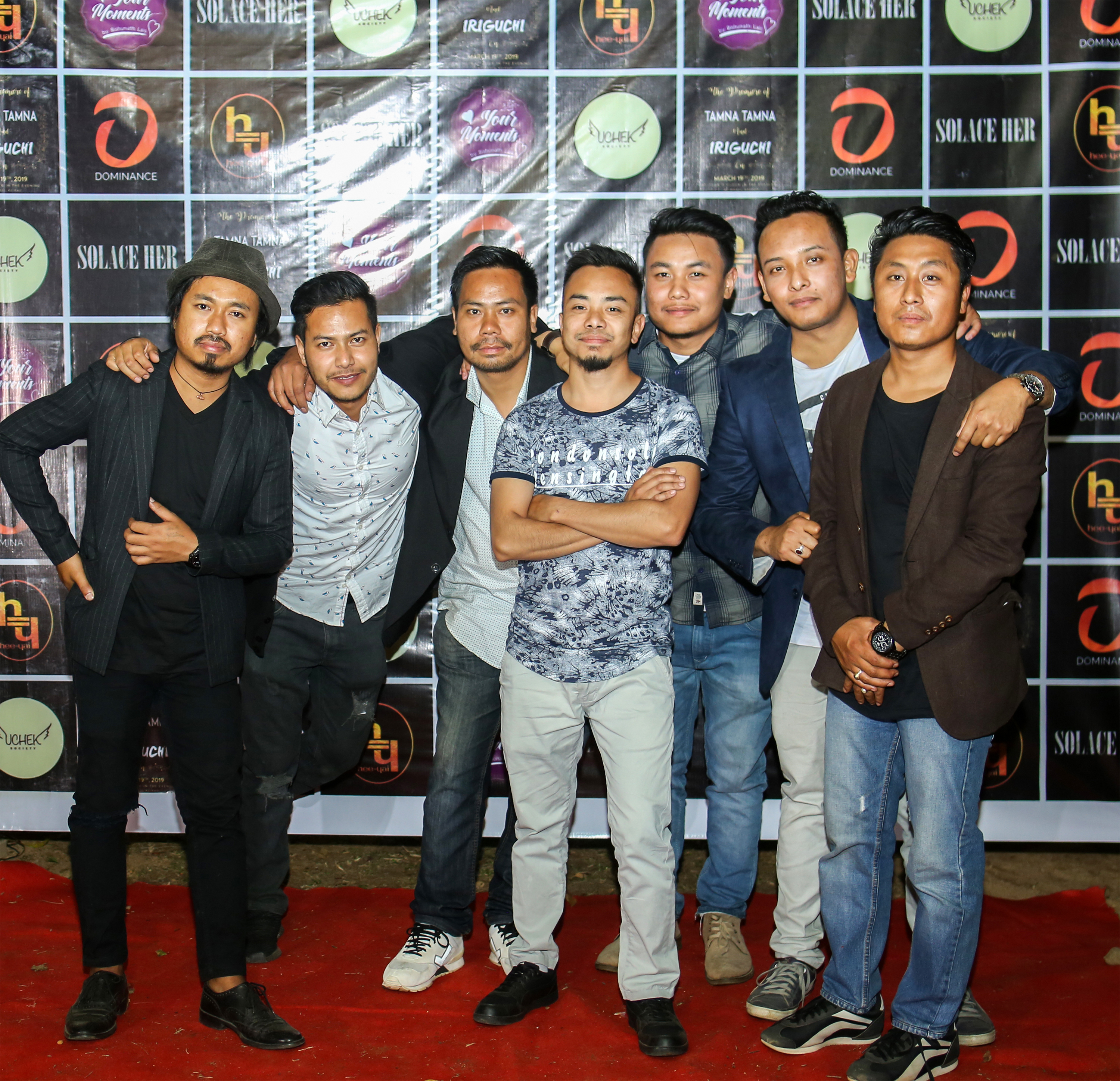 Solace Her and team at Tamna Tamna releasing event, MAASI, Keirao.